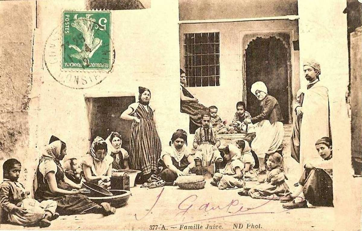 Jewish family of Constantine, Algeria